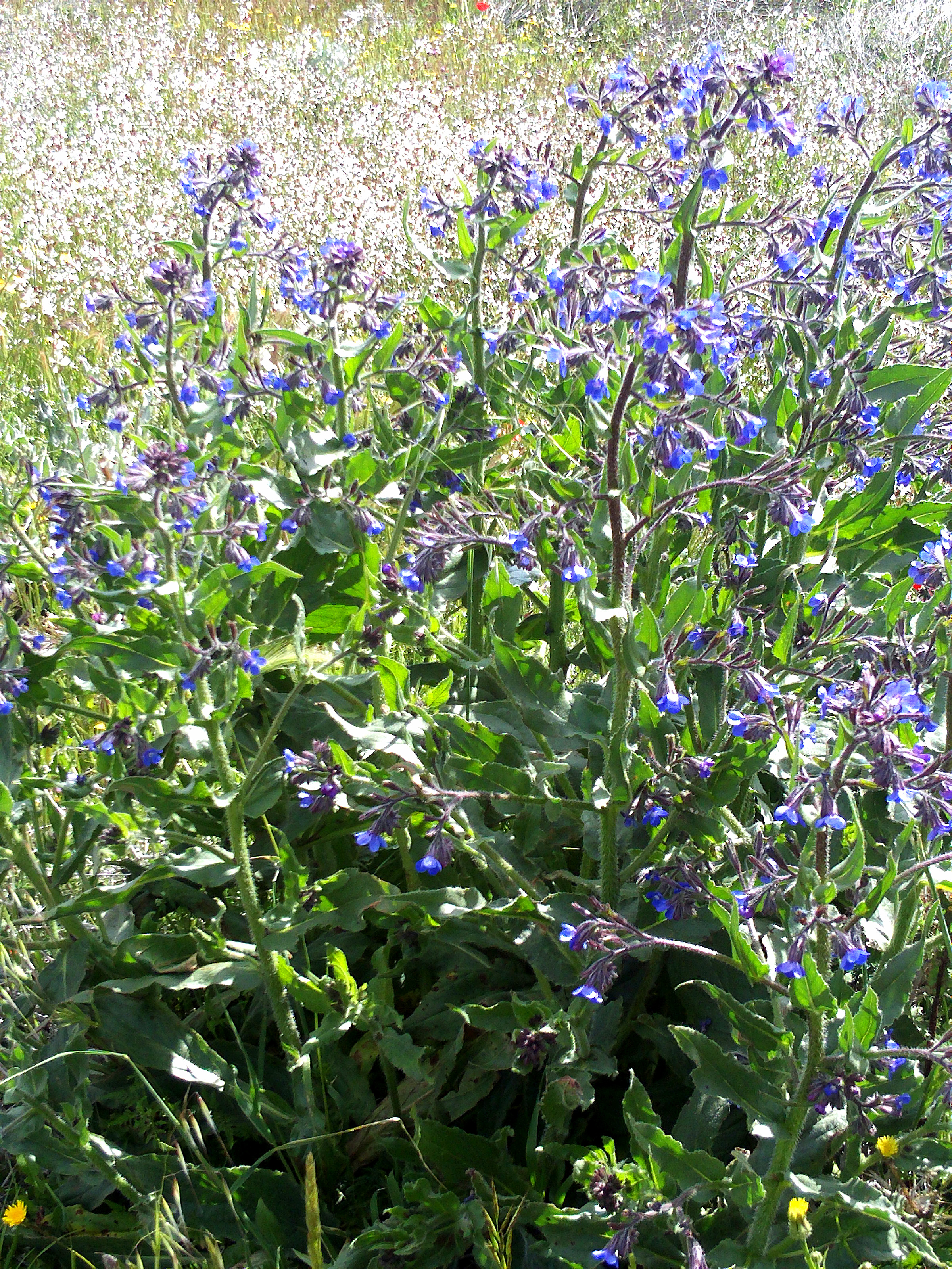 Anchusa azurea habit, Dehesa Boyal de Puertollano, Spain